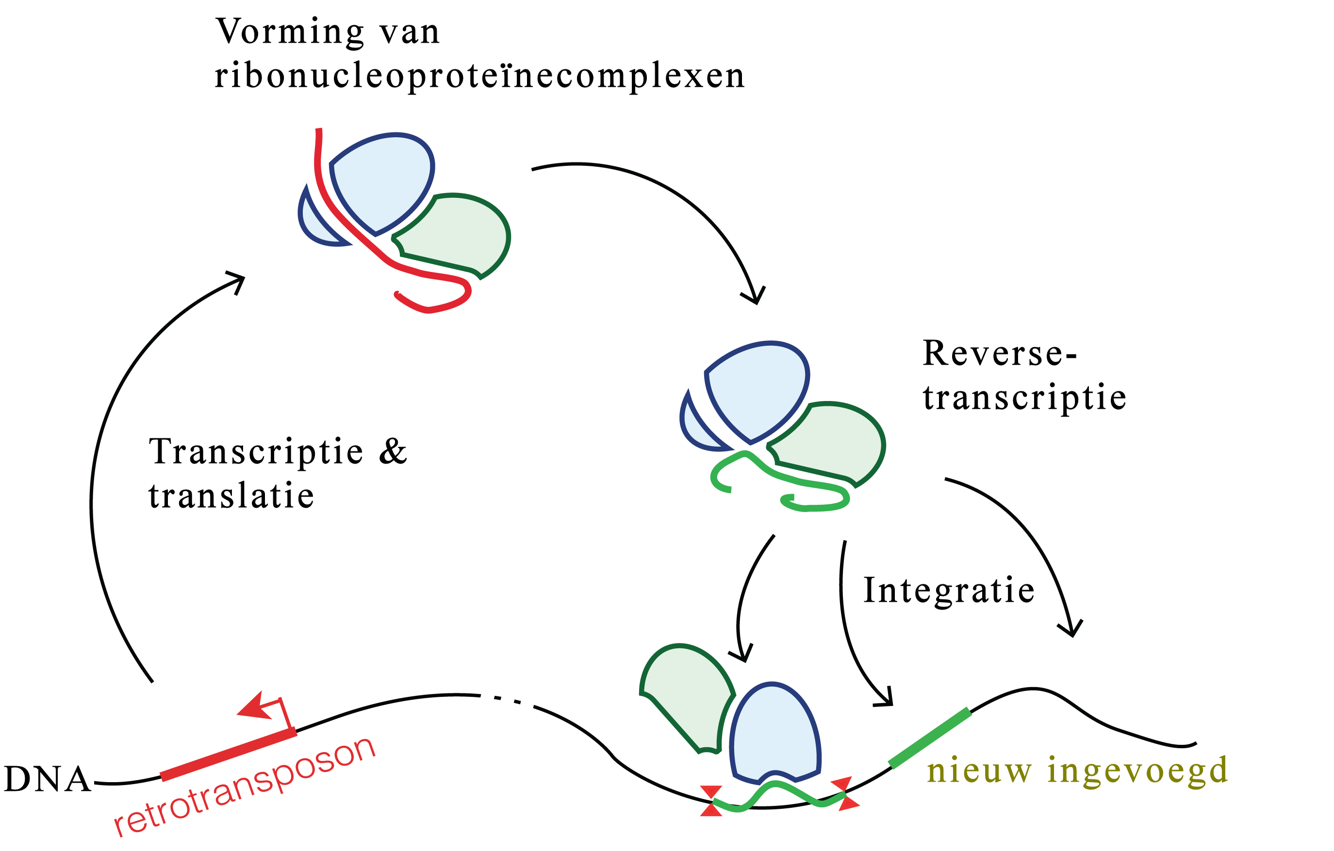 Simplified representation of the cycle of a retrotransposon. Dutch txt by Rasbak